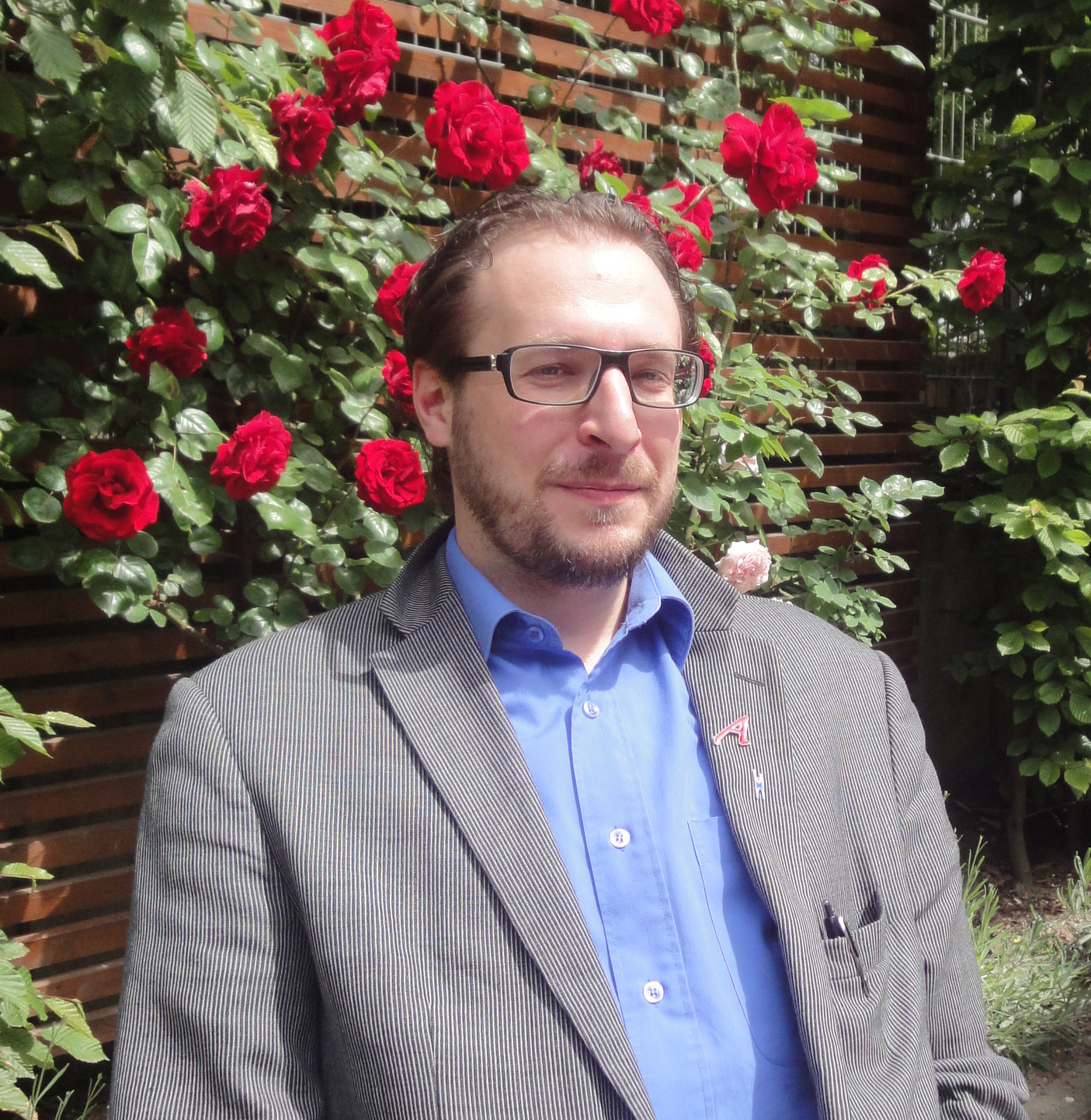 teacher and secular aktivist